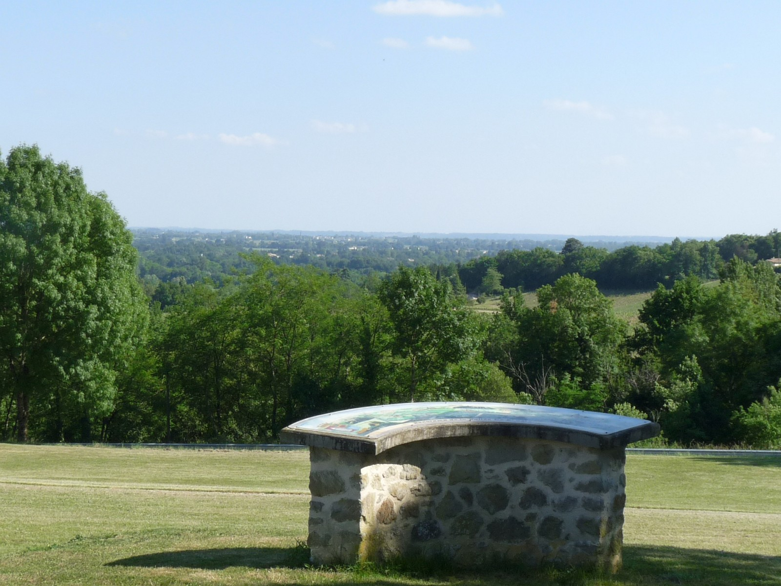 View point